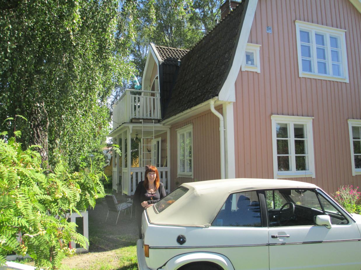 Swedish actress & singer Lena Maria Gårdenäs at her summer home Casa RosadaPlace: Hullaryd, Sweden